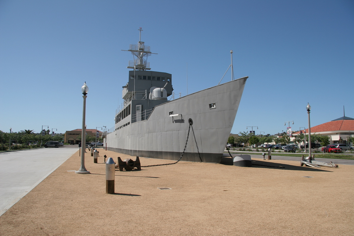 The USS Recruit (TDE-1) at Liberty Station (Formerly Naval Training Center), San Diego - This mockup was used in the training of numerous recruits going through bootcamp. I myself did time on this ship in 1970.